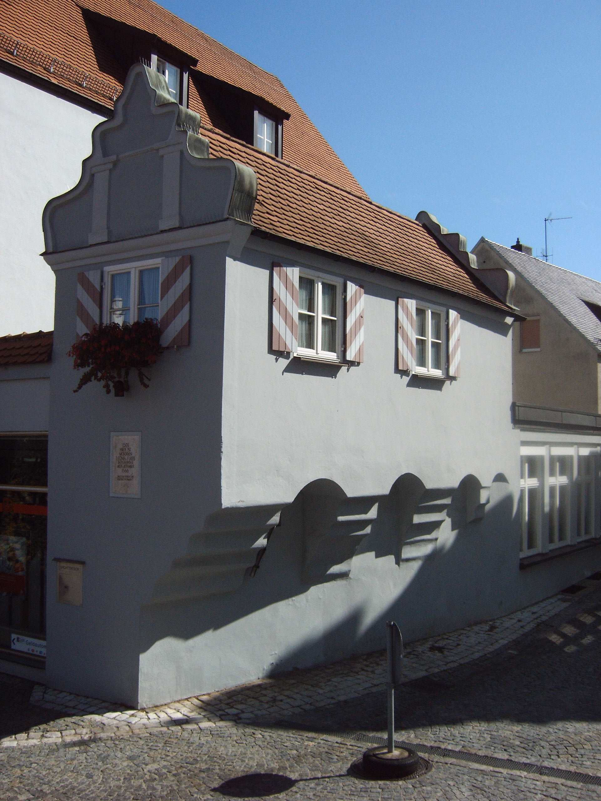 Birthplace of botanist Leonhart Fuchs in Wemding, Germany